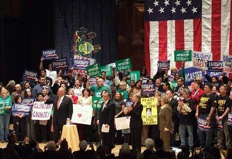 Hillary Clinton rally in Harrisburg. Also Stephen Reed, Ed Rendell, and Catherine Baker Knoll